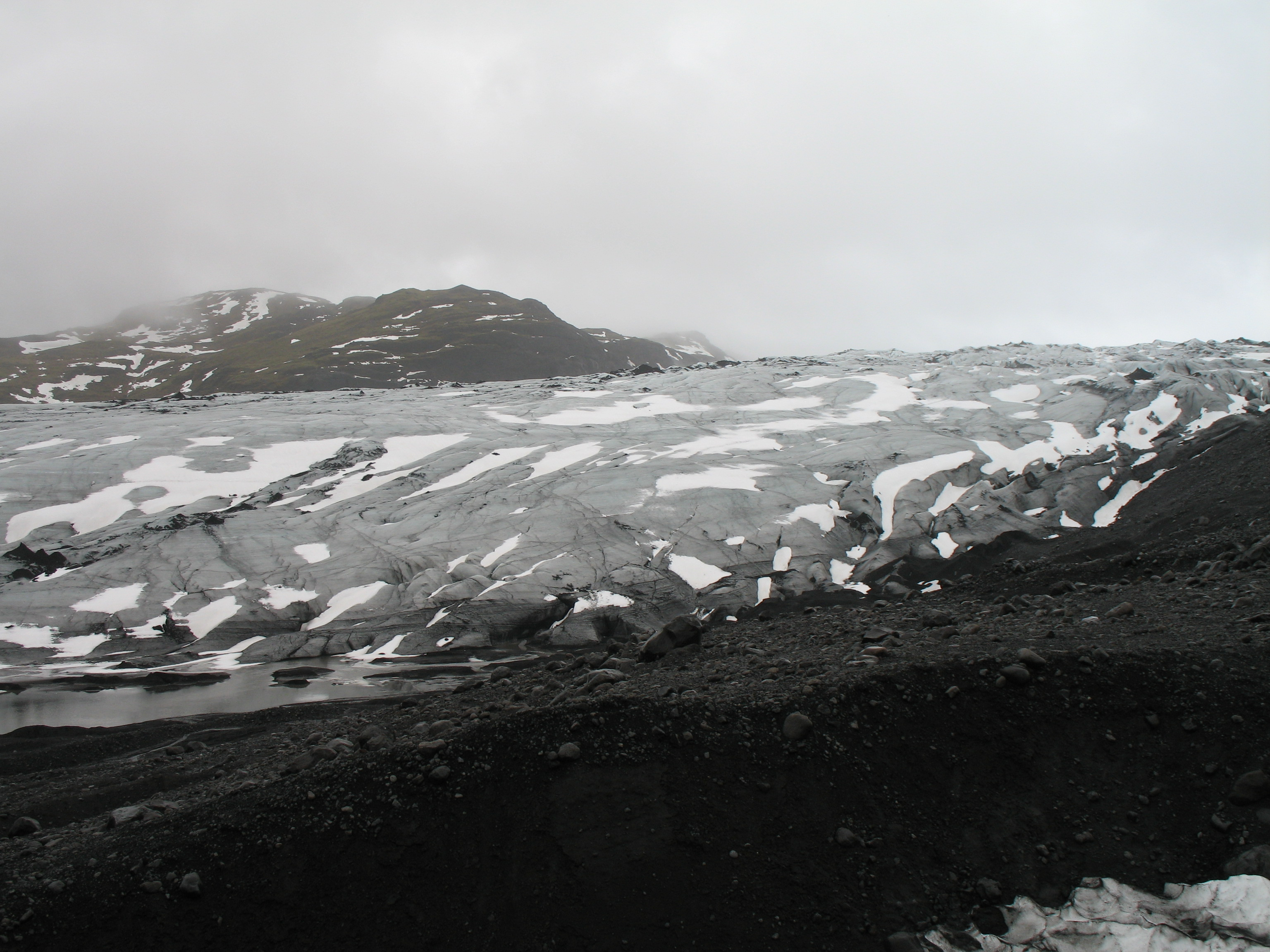 The glacier Solheimajokull of Southern Iceland, photographed in March 2007.